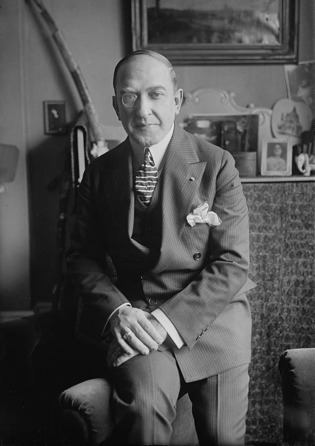 Andrés De Segurola photographed circa 1920.